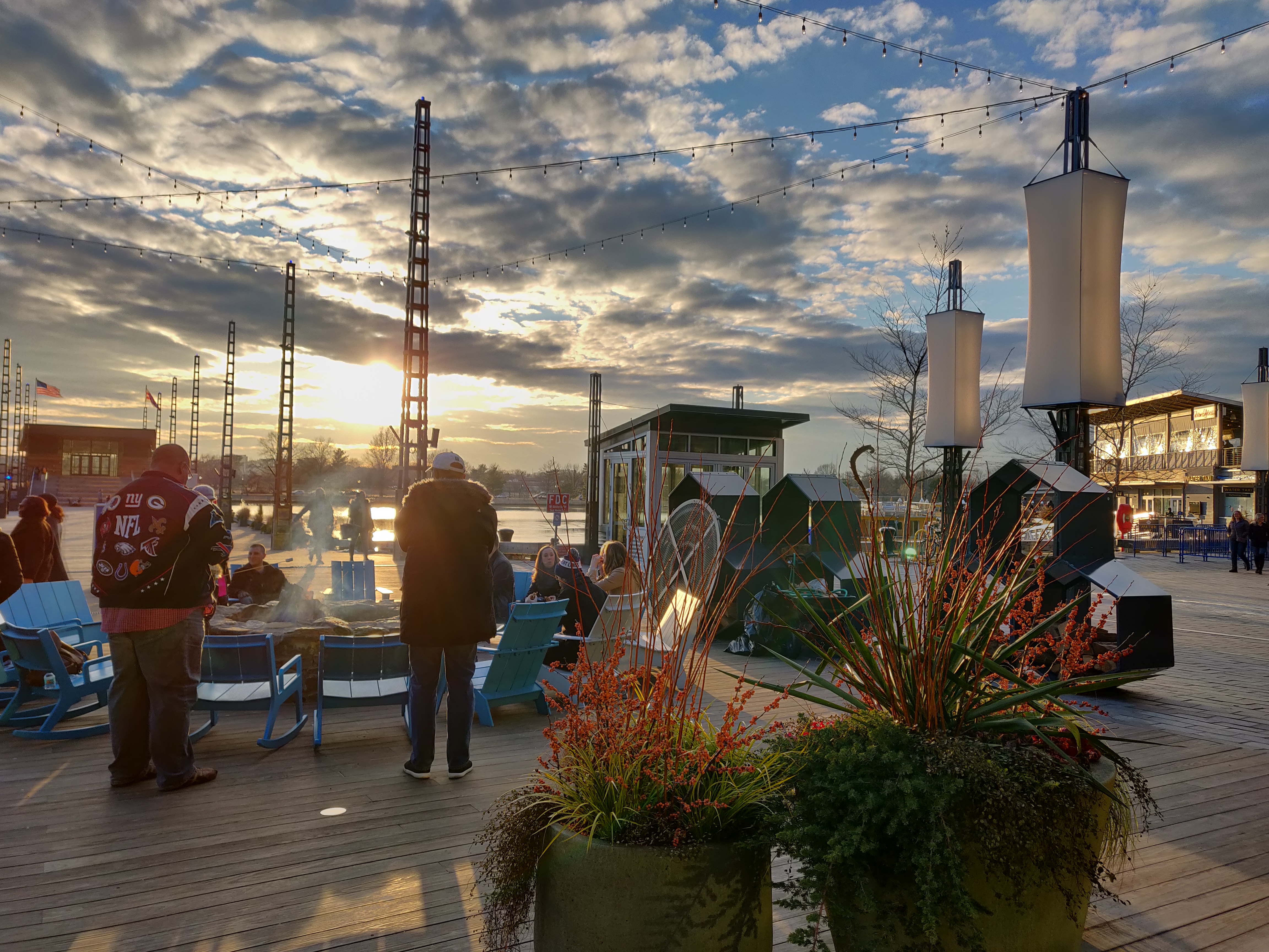 People gather at the fire pit at the Wharf development in southwest Washington, D.C. in January 2019.